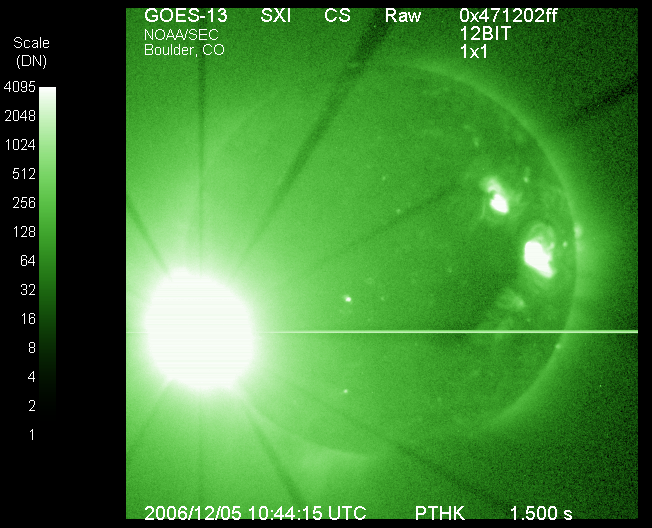 Observation image from the GOES 13 SXI instrument, during an X1-class solar flare